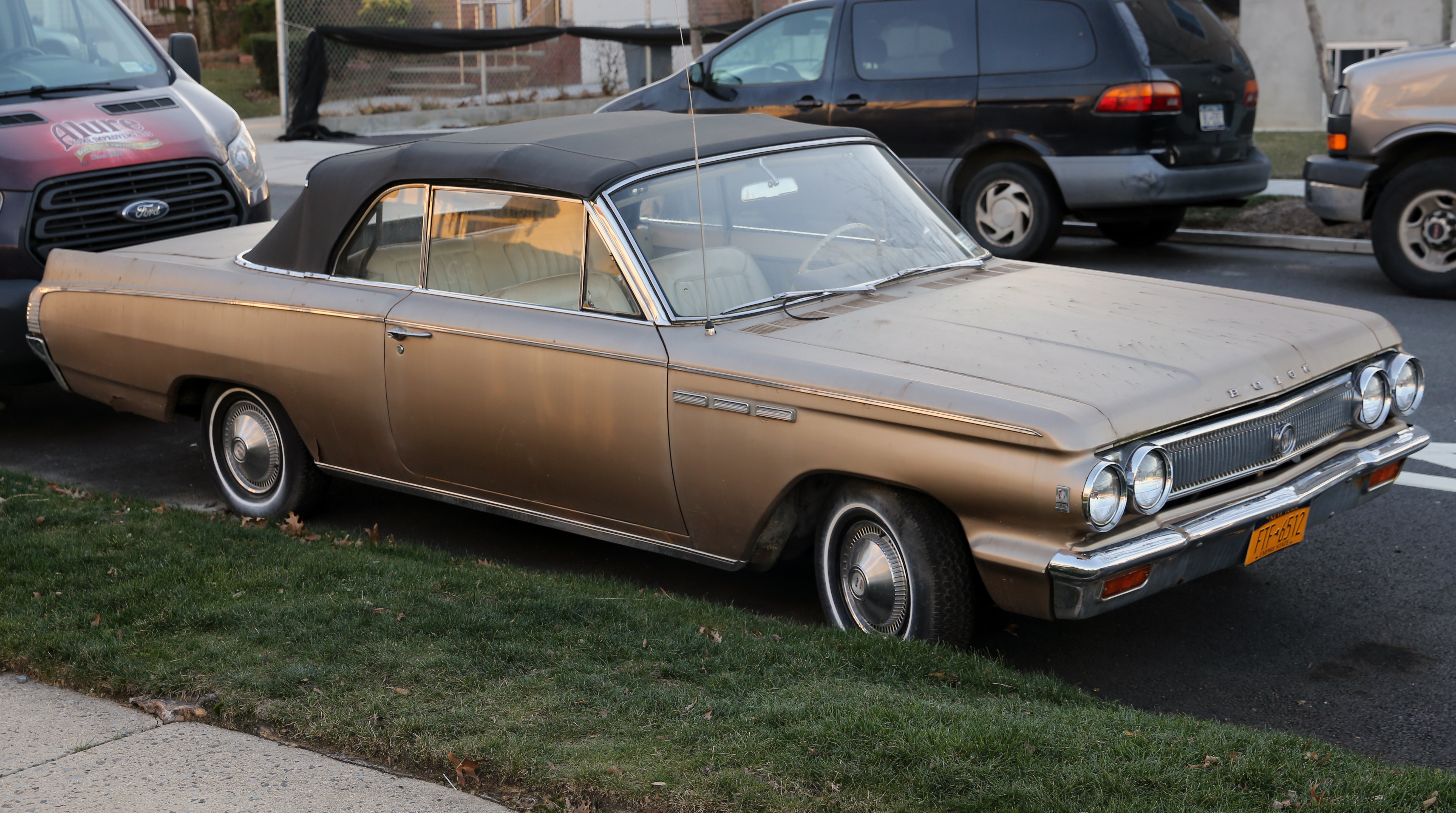 A 1963 Buick Skylark convertible (serie 4367). 1963 was the last year for the 215cid (3.5-litre) alloy V8, here with 200hp in this Flint-built example.